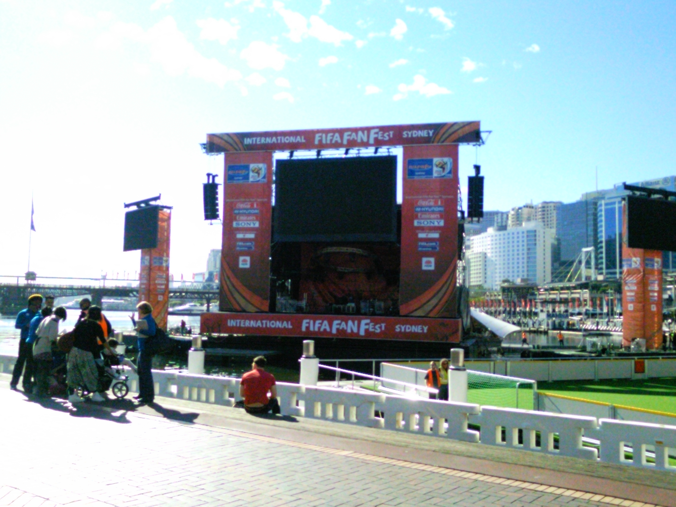 The big screen at the FIFA Fan Fest in Sydney being set up. by User:Nath1991